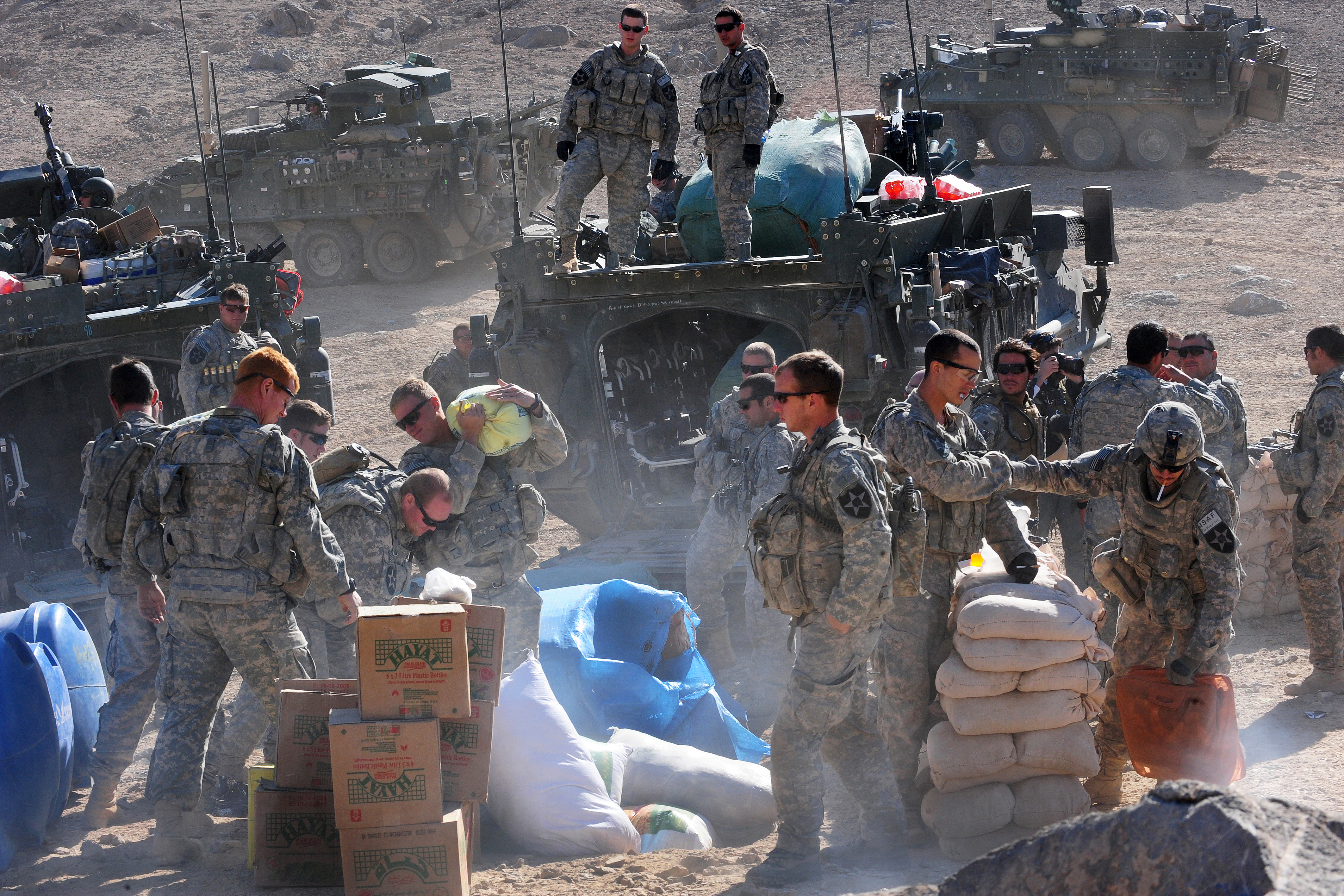 U.S. Soldiers unload humanitarian aid for distribution to the town of Rajan Kala, Afghanistan Dec. 5, 2009. The team used their Stryker armored vehicles to move the humanitarian aid from the Joint District Community Center to the town of Rajan Kala. The Soldiers are assigned to Company C, 1st Battalion, 17th Regiment. U.S. Air Force photo by Tech. Sgt. Francisco V. Govea II See more at